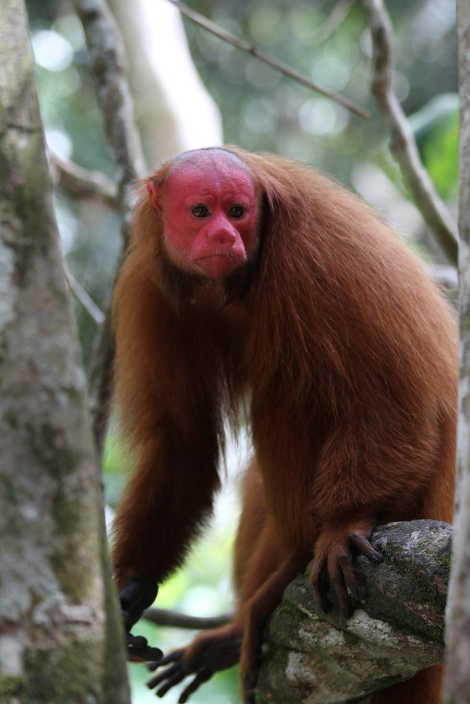 Red bald uakari (Cacajao calvus ucayalii) in Iquitos, Amazon, Peru.